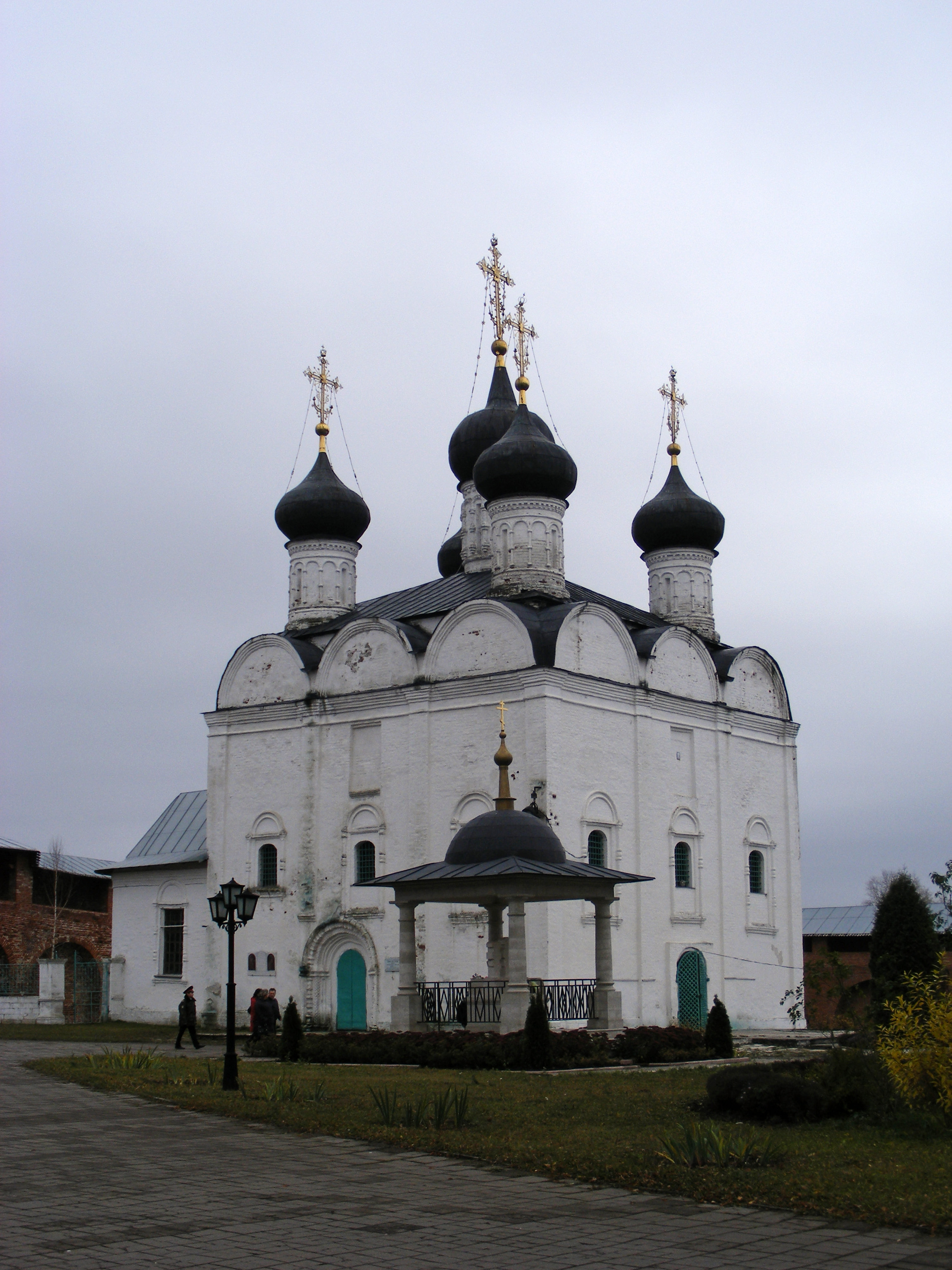 St. Nicholas Cathedral in Zaraysk Kremlin, Moscow oblast